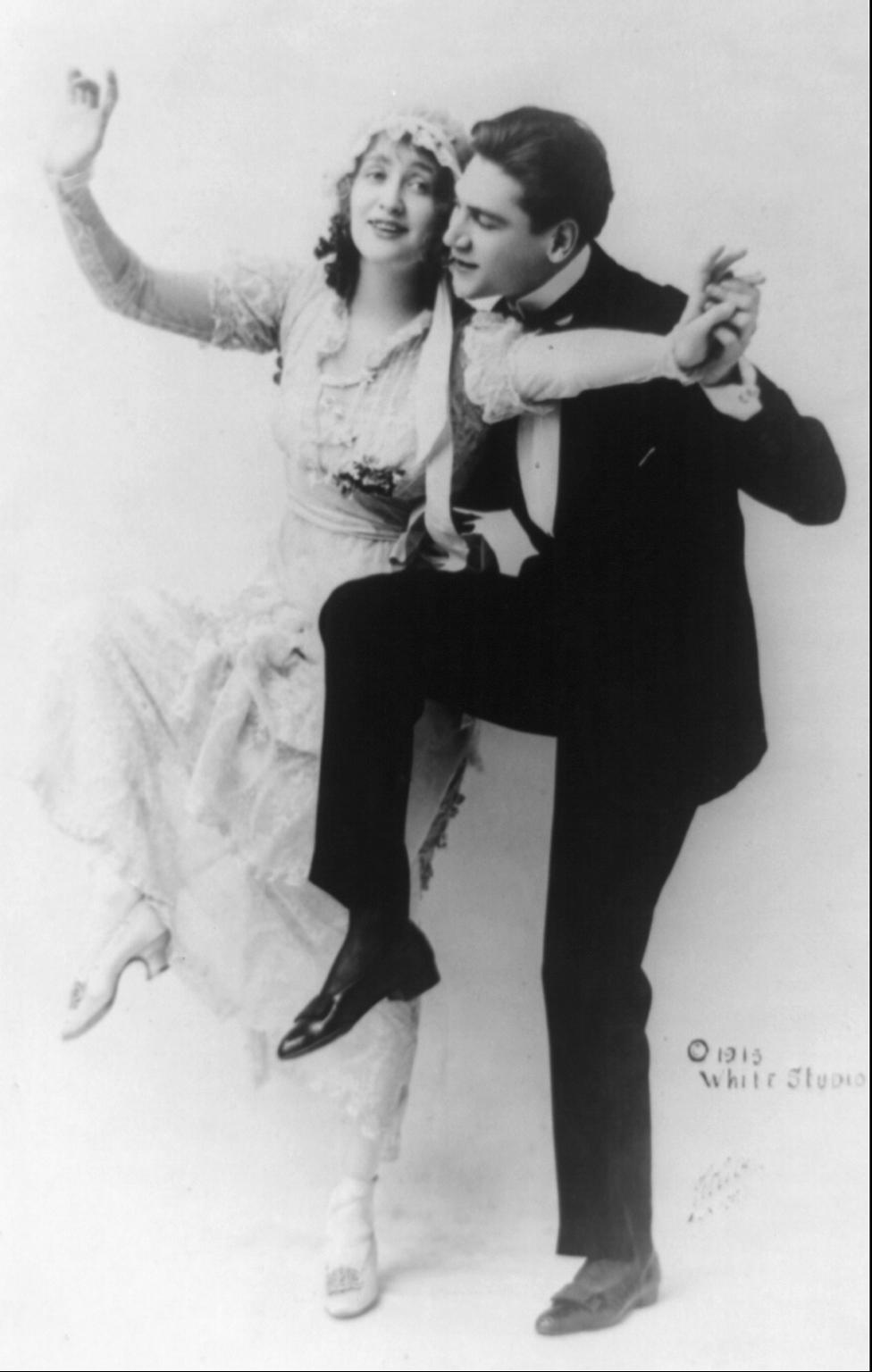 actress and singer Gaby Deslys (1881-1920)